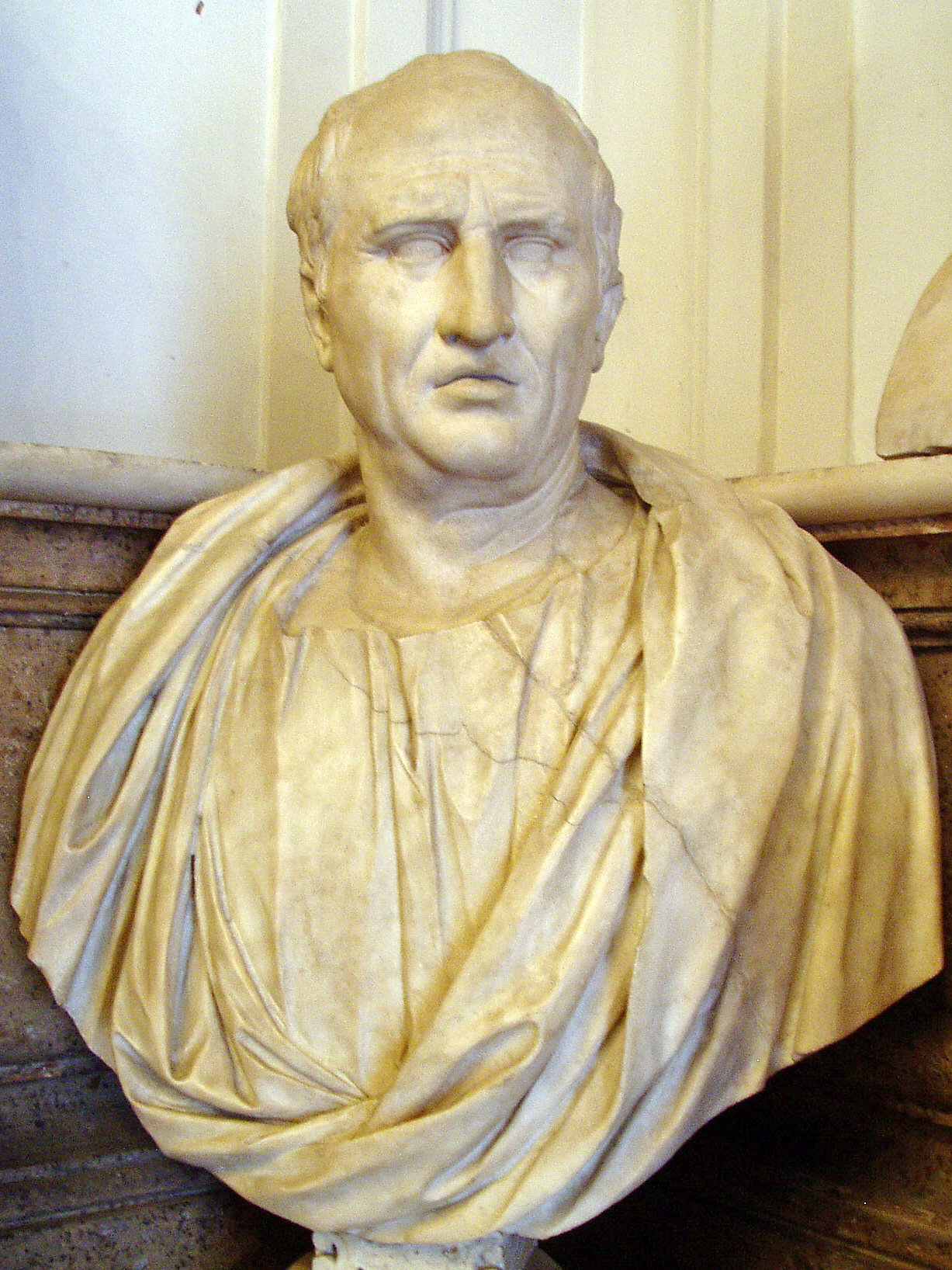 Bust of Cicero, Musei Capitolini, Rome, Half of 1st century AD